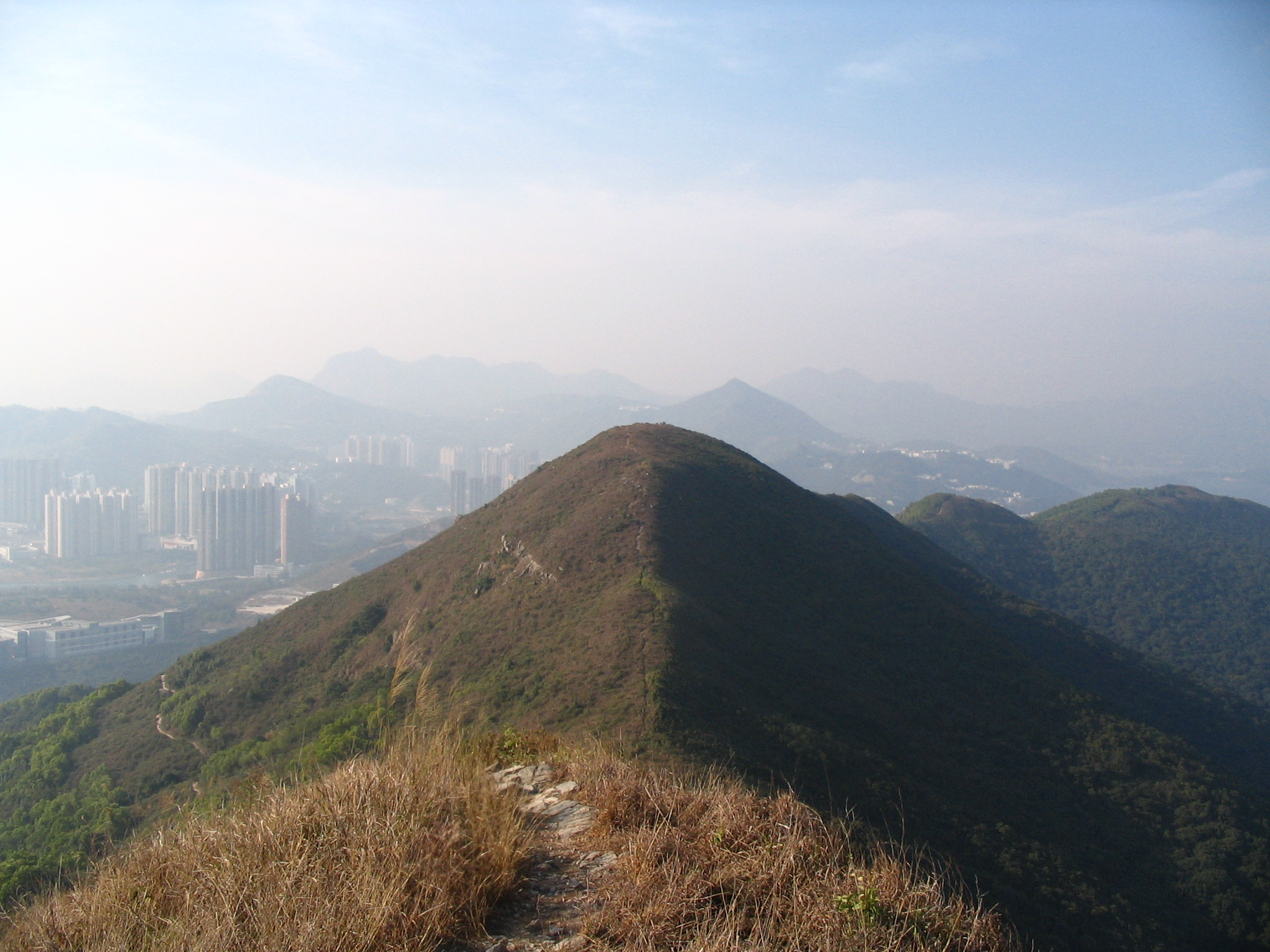 Photo of Miu Tsai Tun